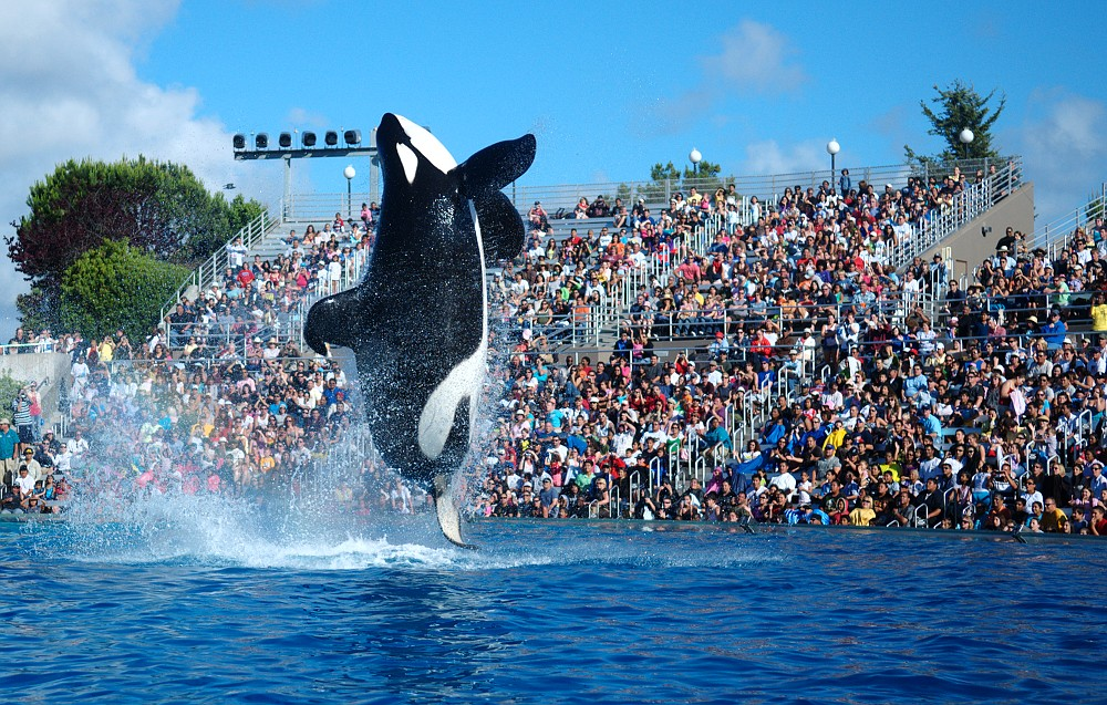 Shamu show with Orcas in San Diego's Sea World